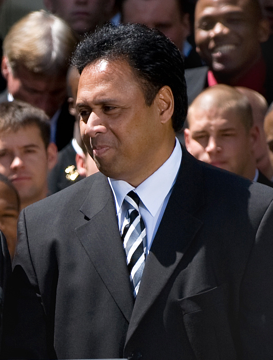 At a White House Rose Garden ceremony.